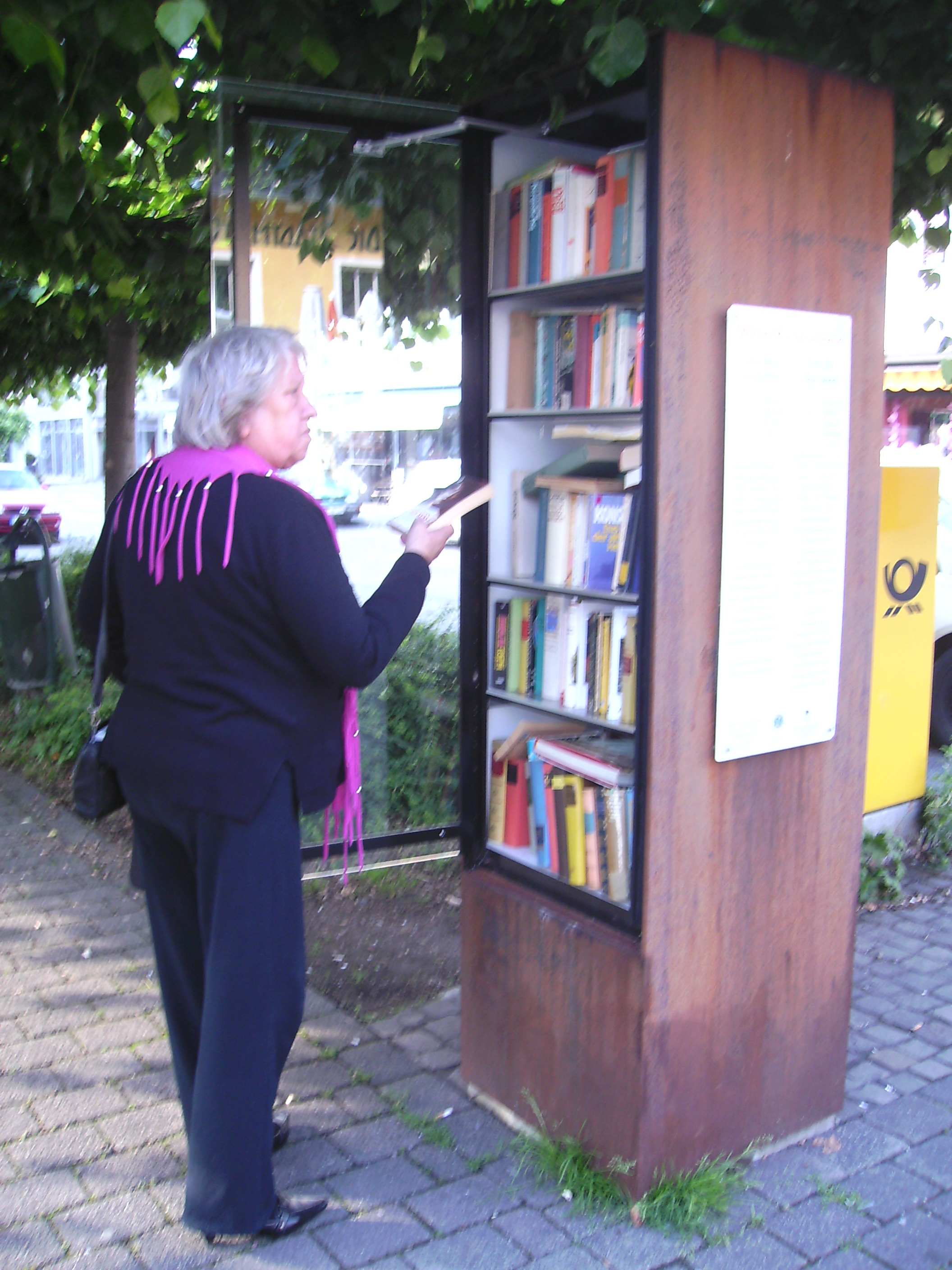 Public bookcase in Overath, Germany.